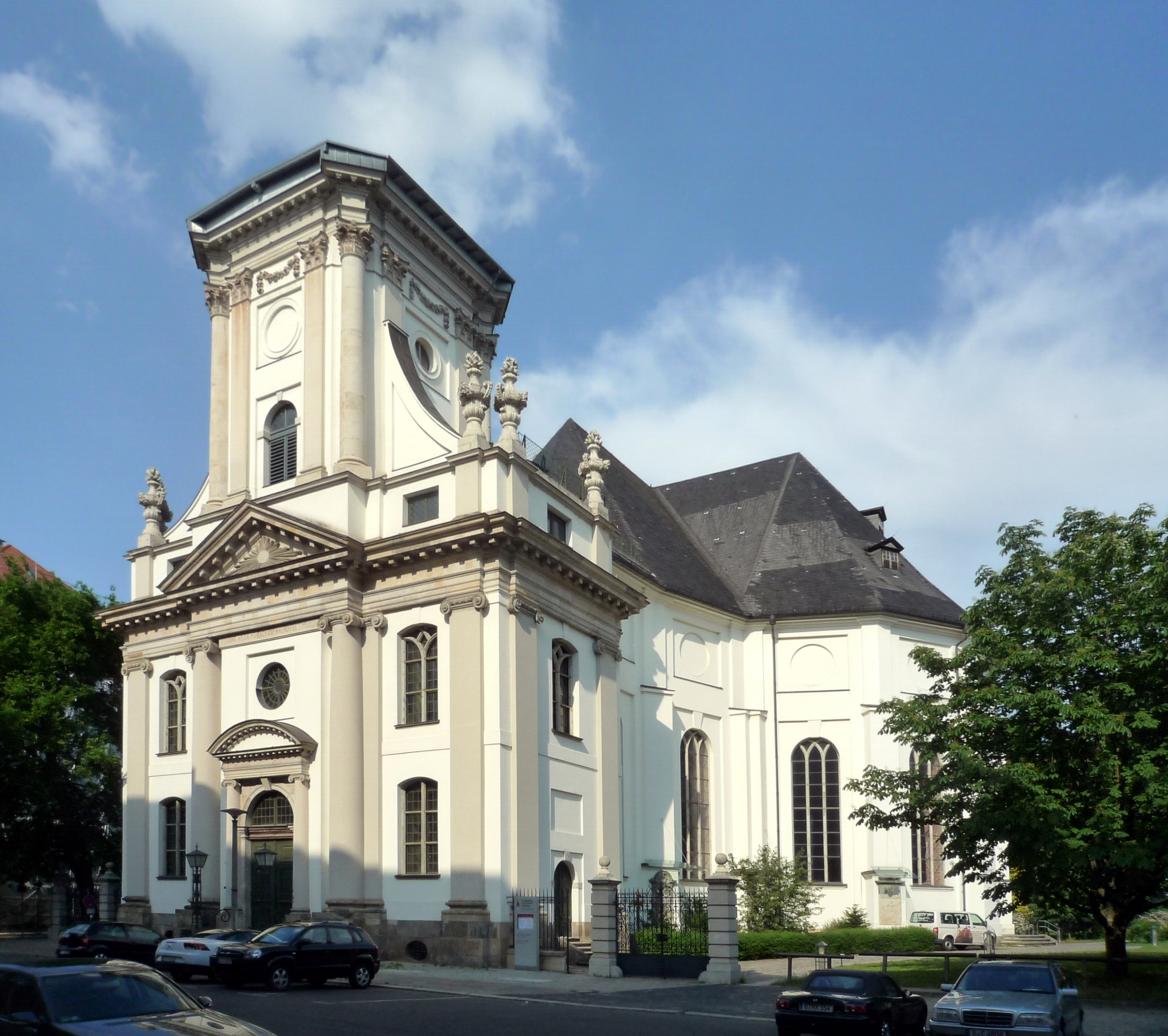 The "Parochialkirche" (-church) in Berlin-Mitte, Klosterstrasse.